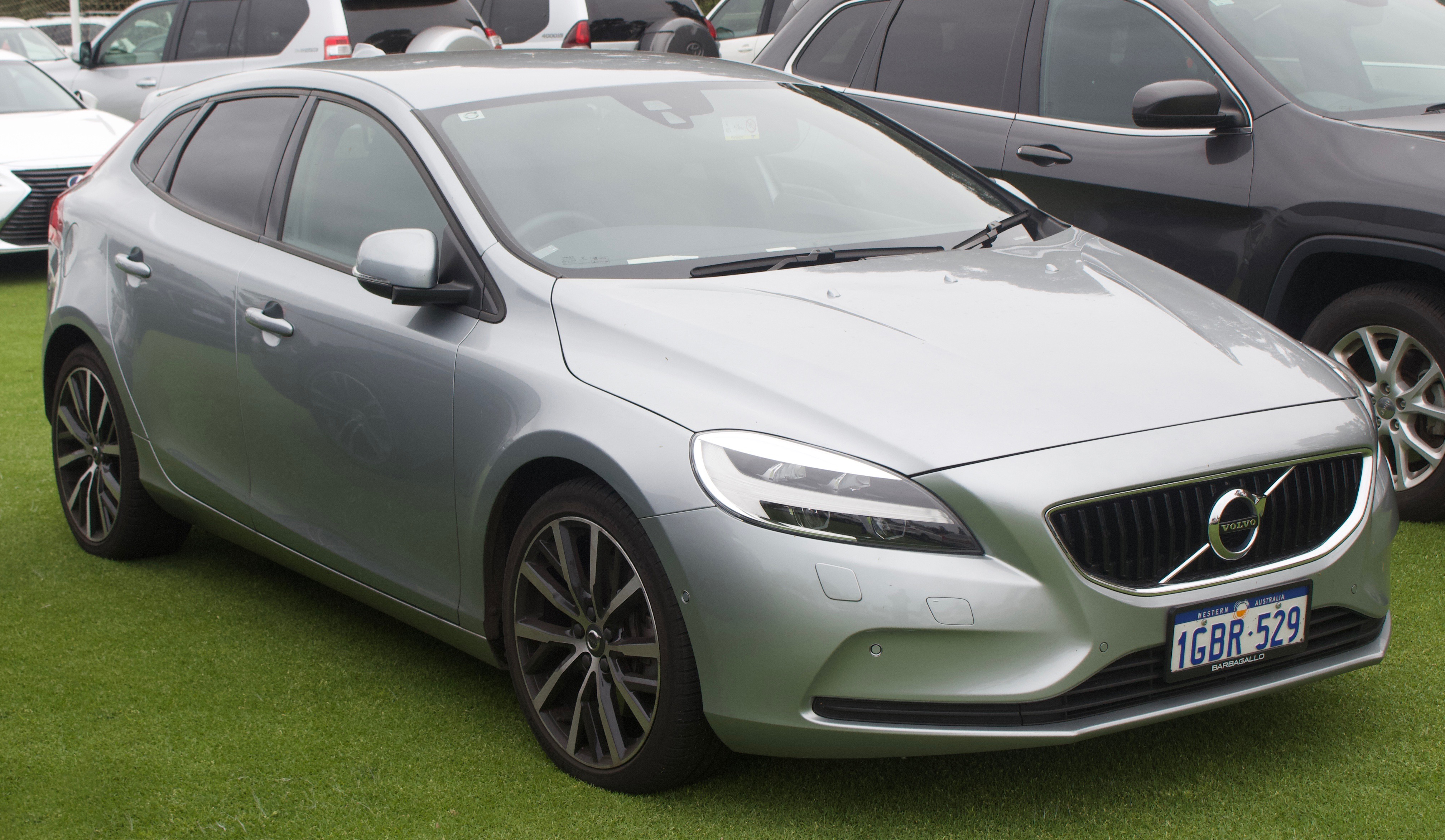 2016 Volvo V40 (MY17) T3 Momentum hatchback. Photographed in Swanbourne, Western Australia, Australia.